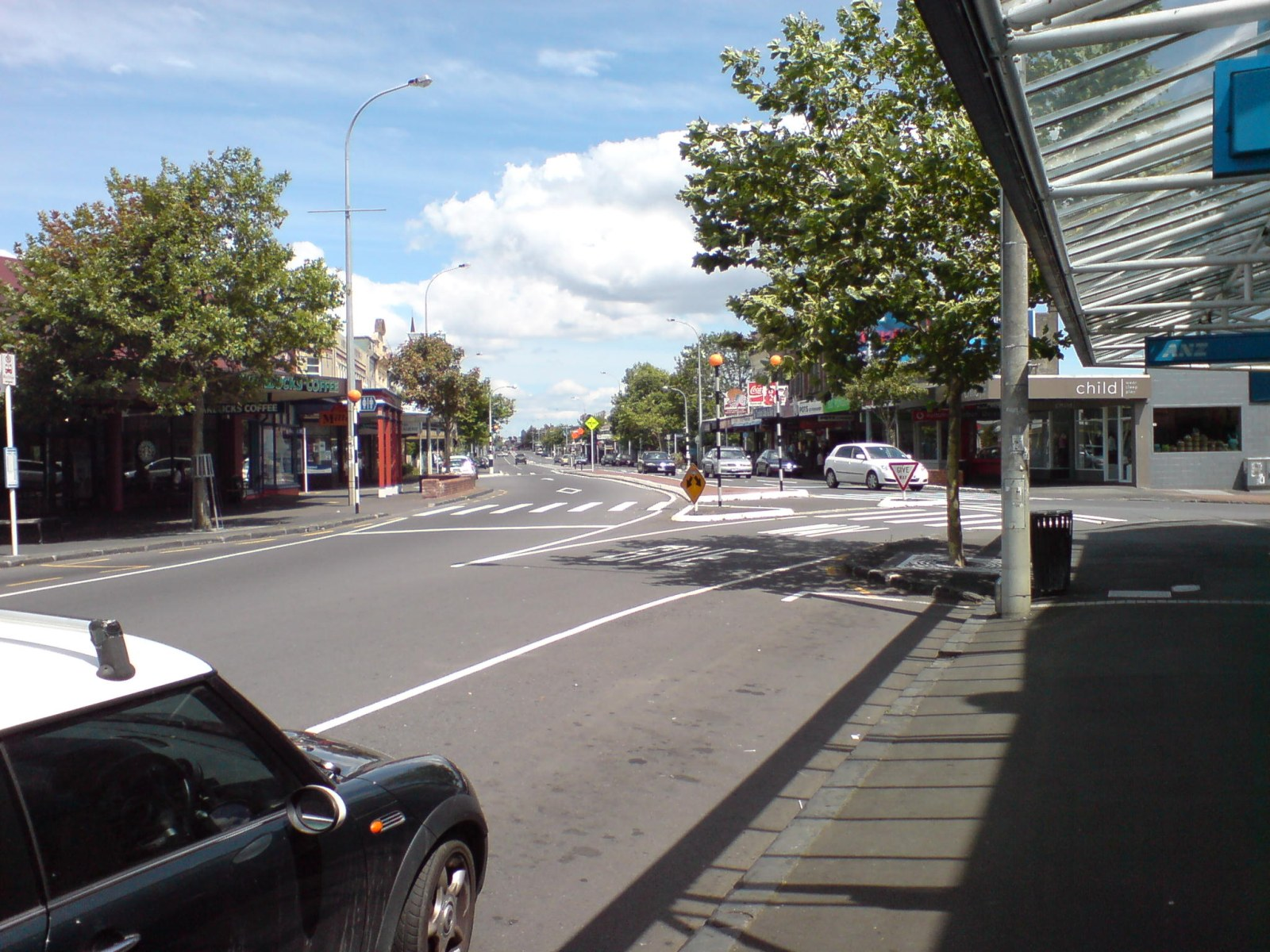 Ponsonby Road in the Ponsonby suburb of Auckland City, New Zealand. Looking south about fifty meters south of the Jervois Road intersection.